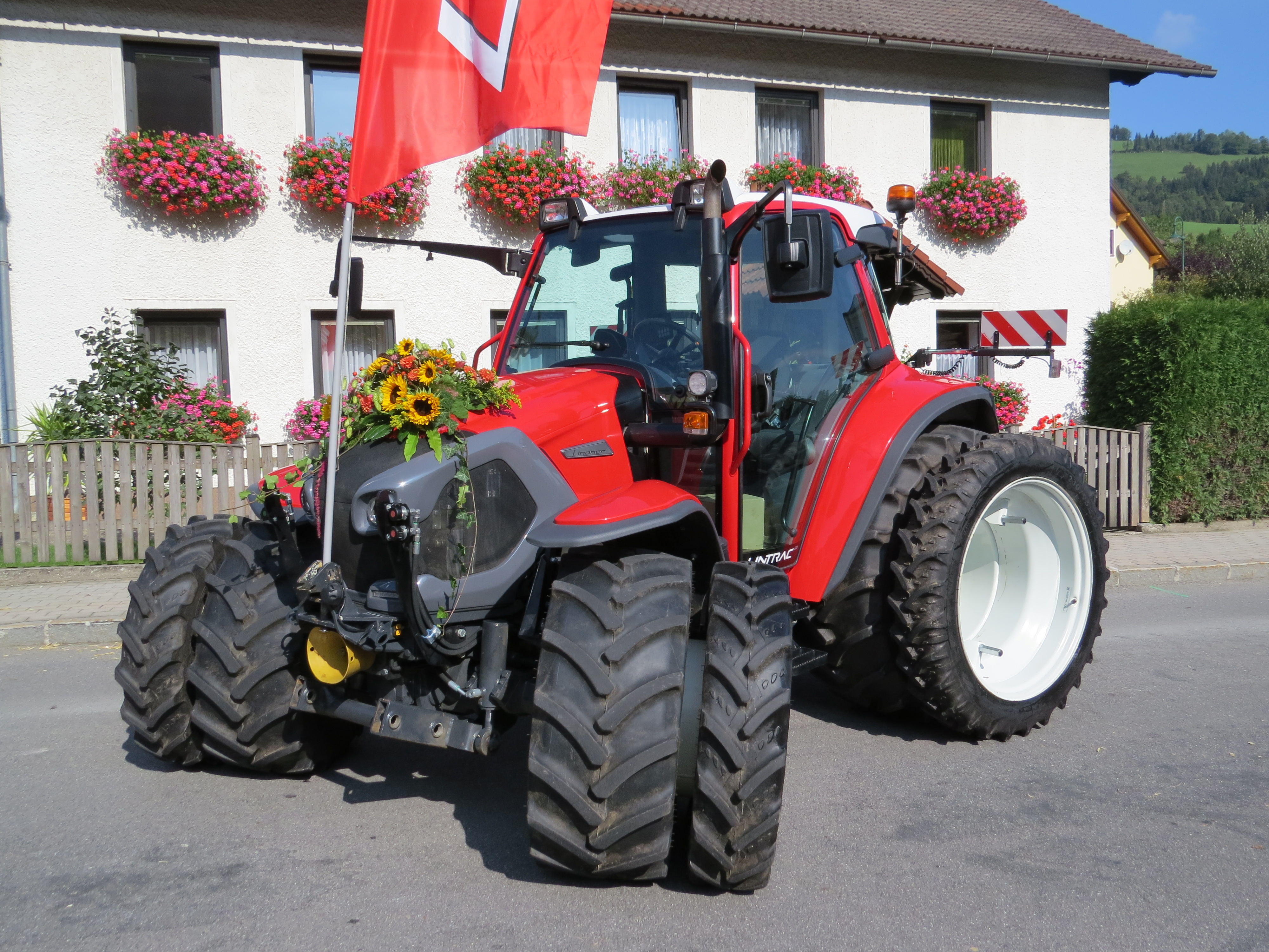 Lindner Lintrac positioned in the entrance area of Dirndlkirtage to prevent attacks, as in Nice on July 14, 2016.